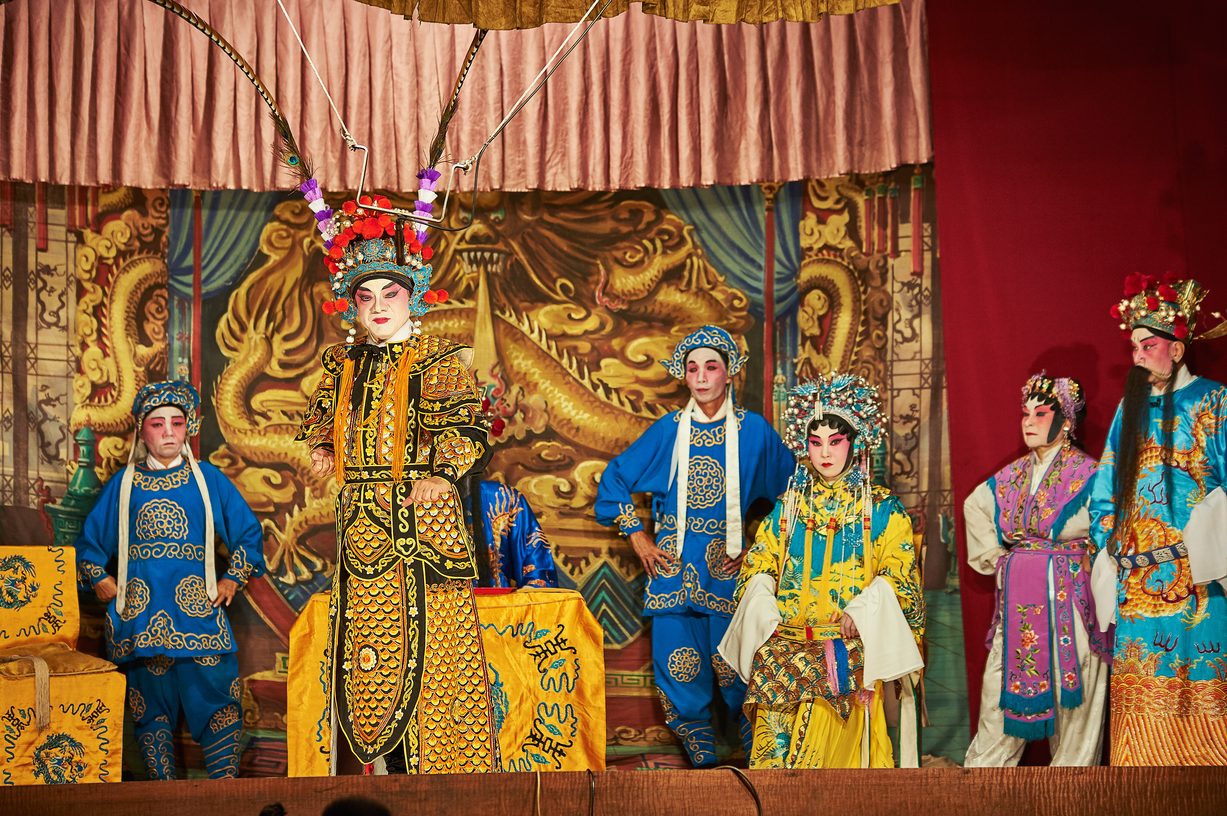 Cantonese opera, Ipoh, Perak, Malaysia.